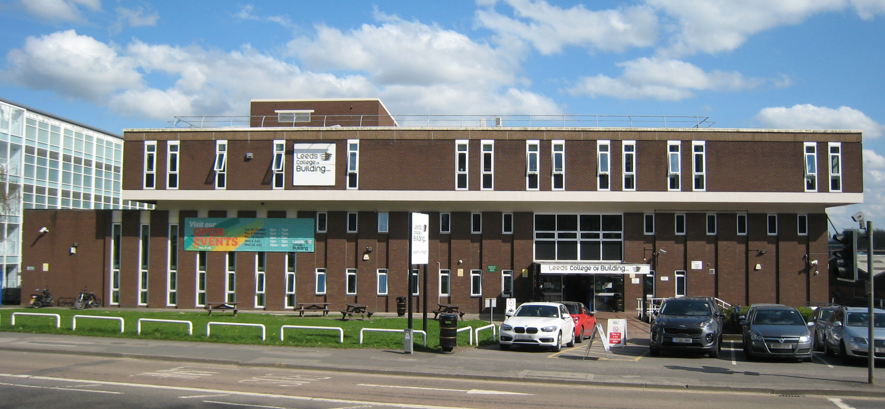 Leeds College of Building, North Street, Leeds LS2 7QT